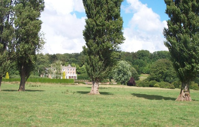 Tetton House. A very secluded house, not visible from any public road. Photo taken from a public footpath across Tetton Park.